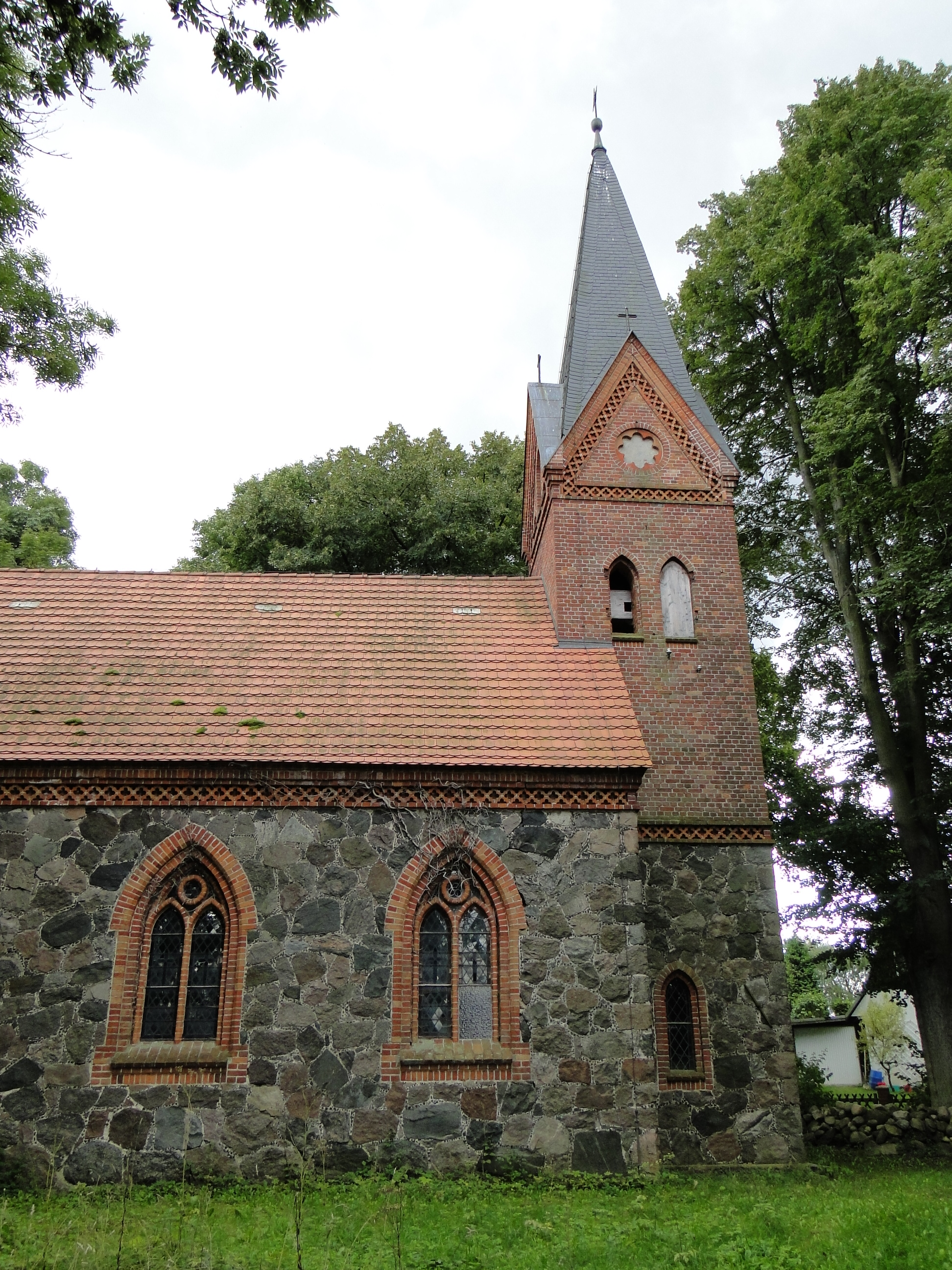 Church in Liepen, district Mecklenburg-Strelitz, Mecklenburg-Vorpommern, Germany